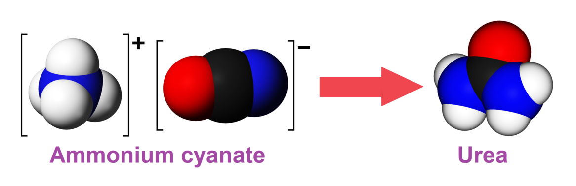 Conversion of Ammonium Cyanate into Urea